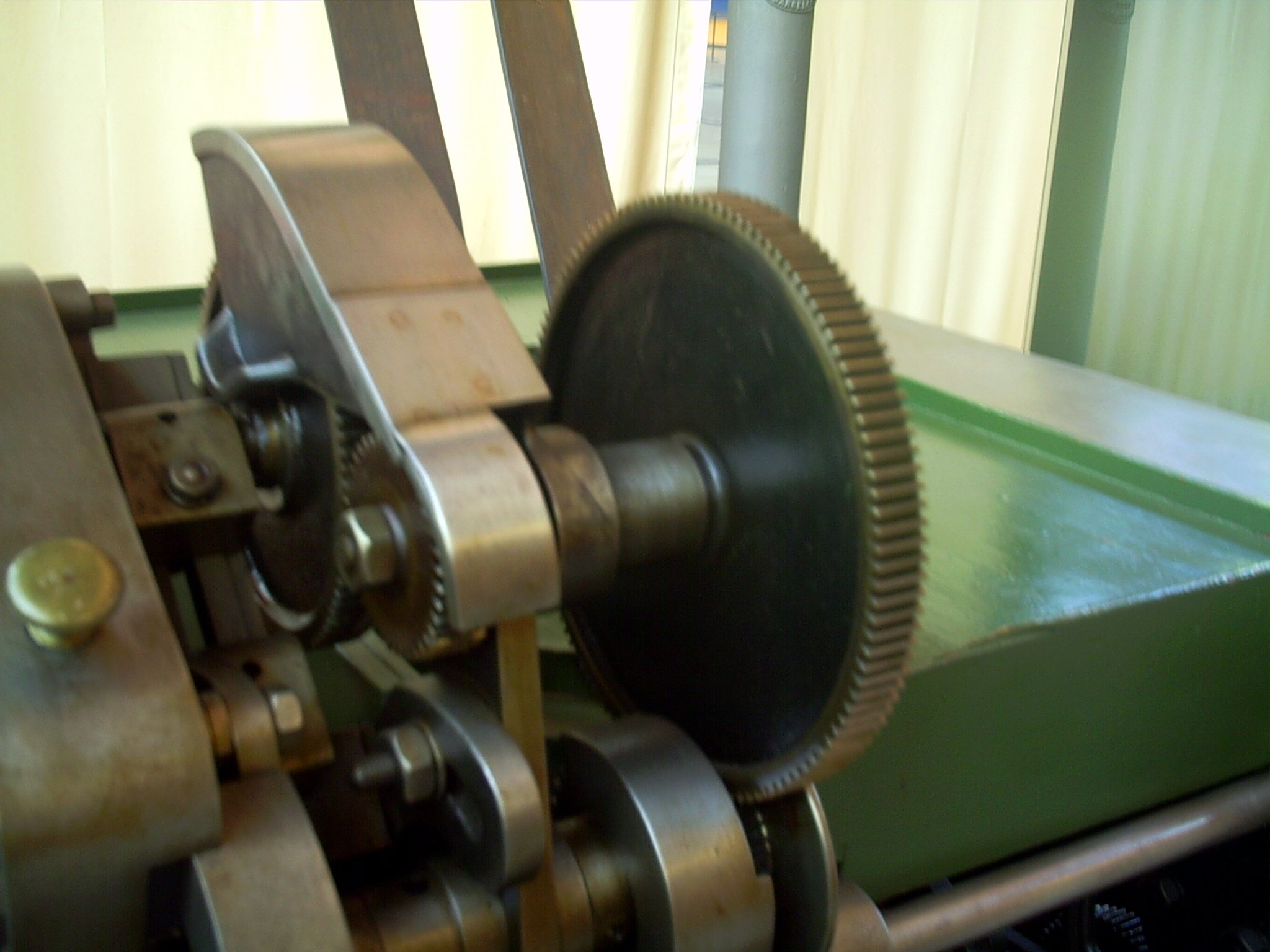 Continual spinner, detail, at the mNATECT, Terrassa, (Catalunya).